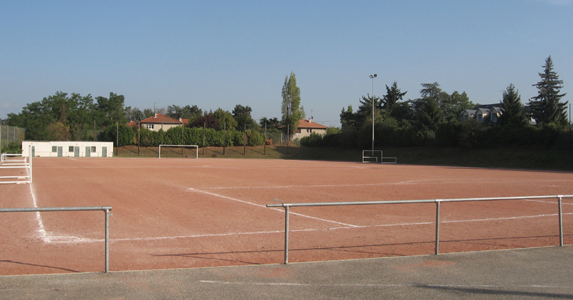 Stade José Roman, a footballstadium in Saint-Laurent-de-Mure, France.